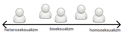 Diagram shows the continuum of sexual orientation with homosexuality and heterosexuality on the ends and various types of bisexuality on the middle. Icons copied from File:PL_icon_doll.svg.